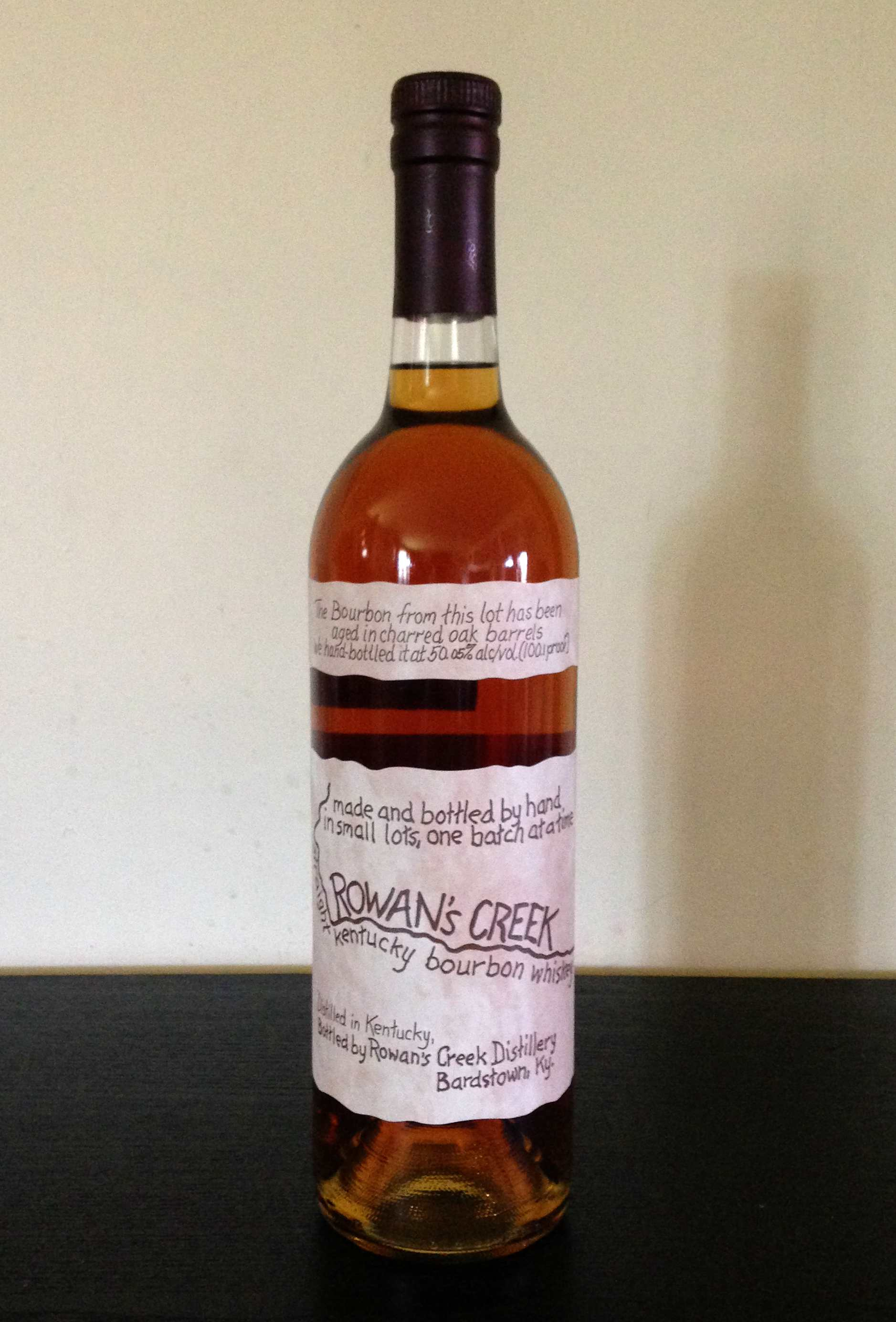 Rowan's Creek Bourbon as sold in the "wine bottle" style.